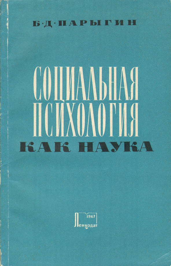 Social Psychology as a Science. 1967. Book cover.